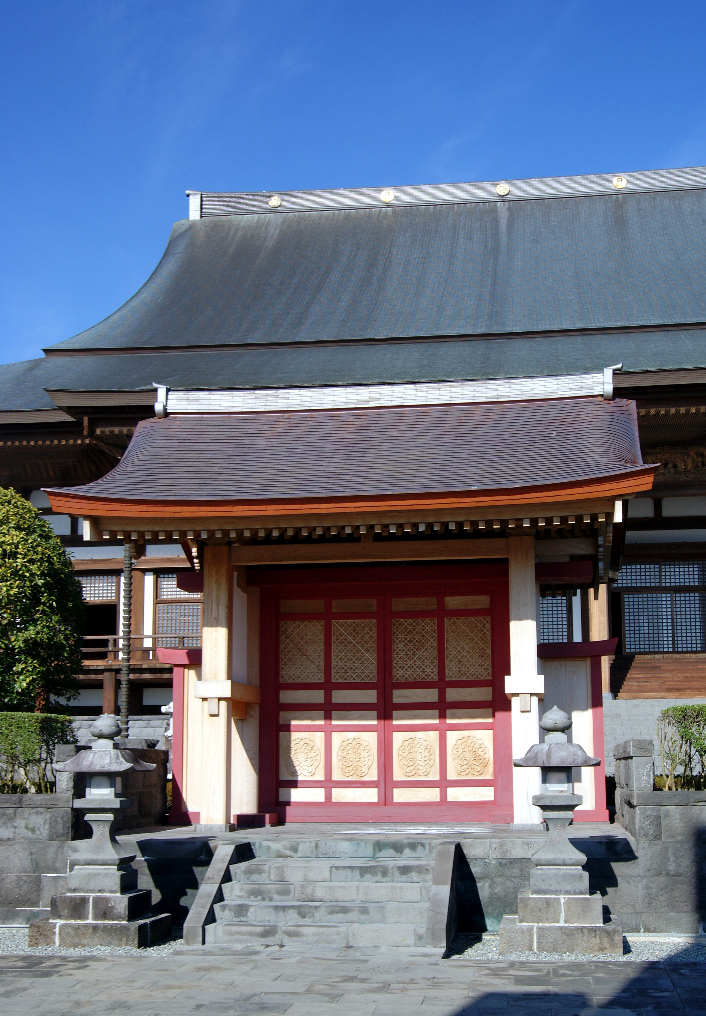 Akazunomon of Taiseki-ji.